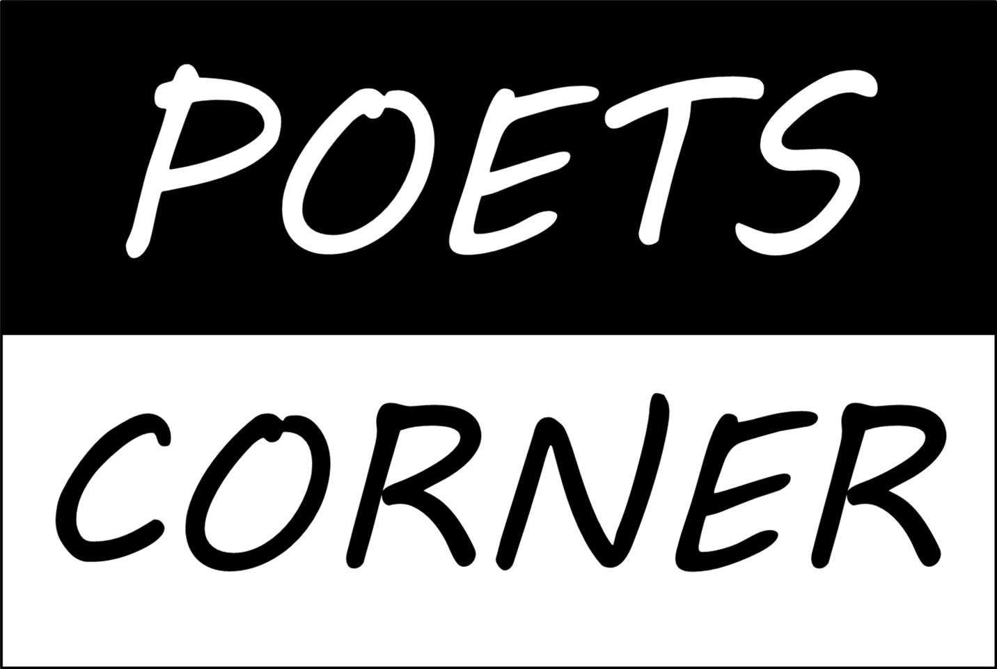 This is official logo of Poets Corner Group, a literary group founded in June, 2011.